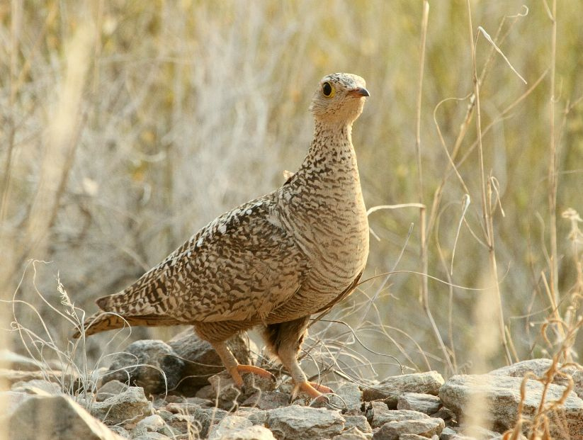 A female Double-banded Sandgrouse about 10 km east of Kakamasin, Northern Cape, South Africa.